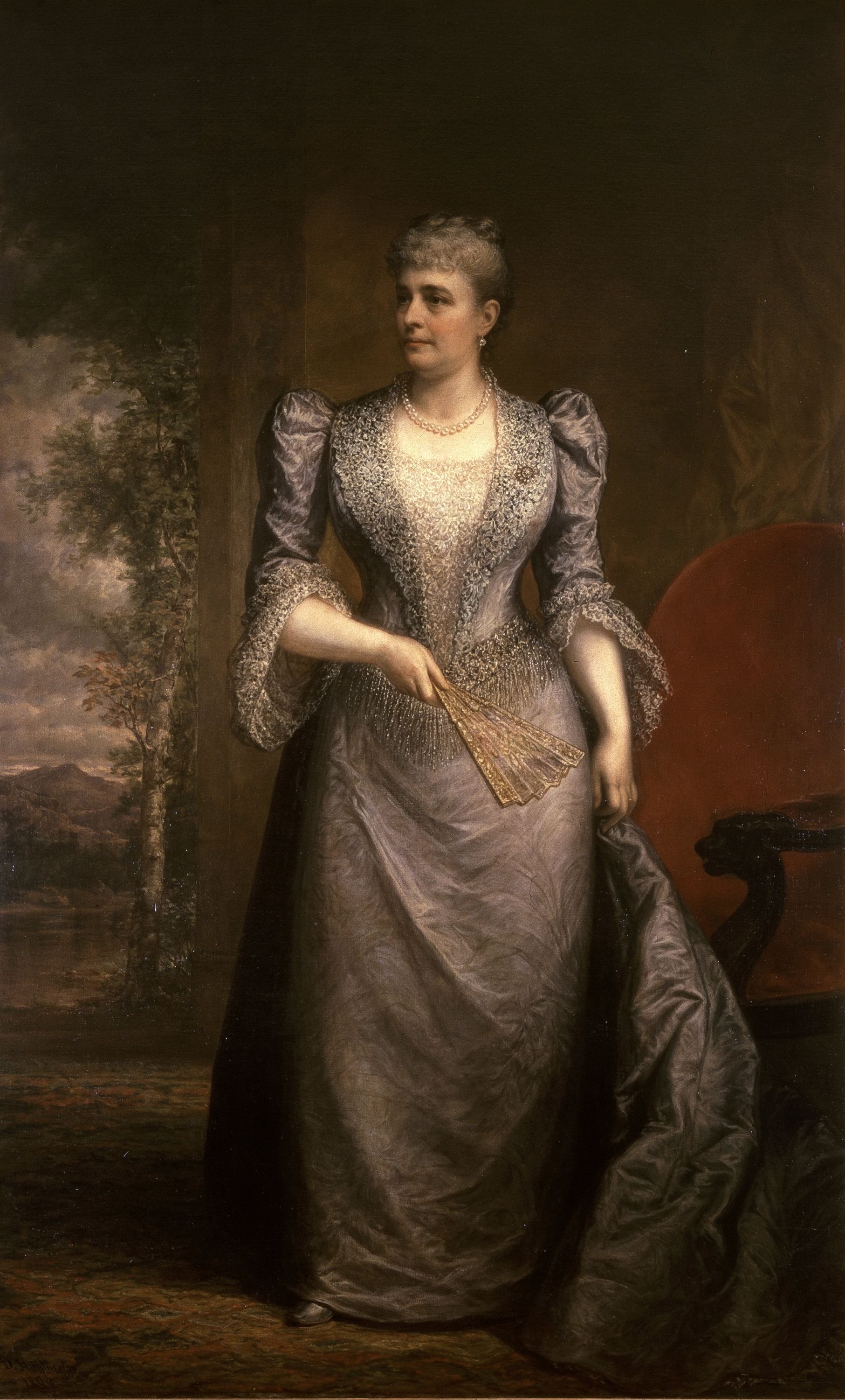 Portrait of Caroline Scott Harrison, First Lady of the USA.